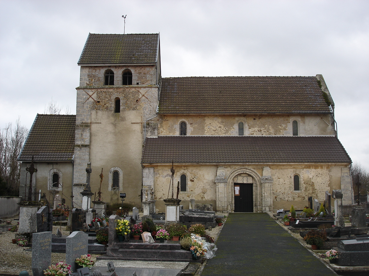 Saint Memmie church of Villeneuve (12th century),Marne , France